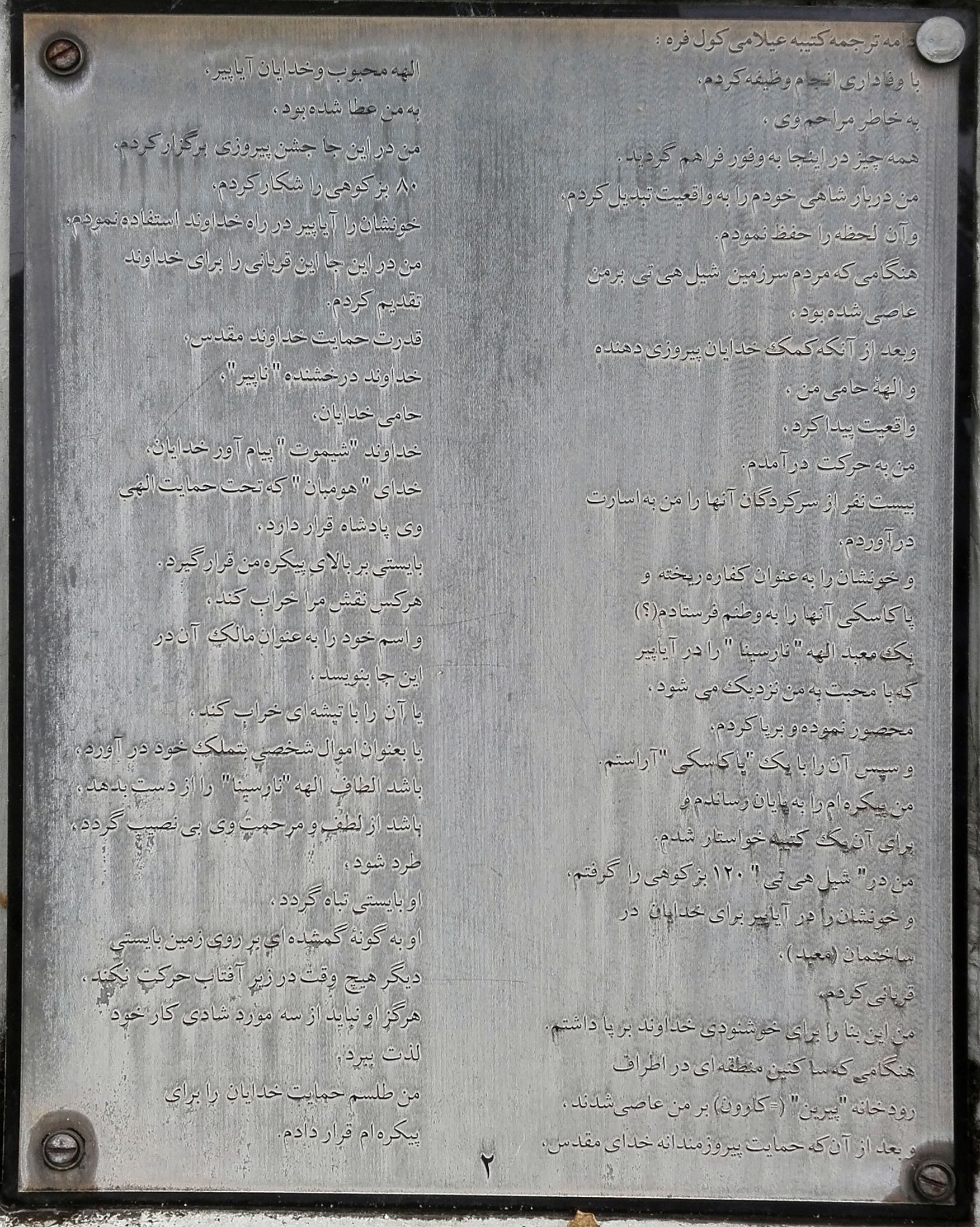 taken in inscription garden, Tehran